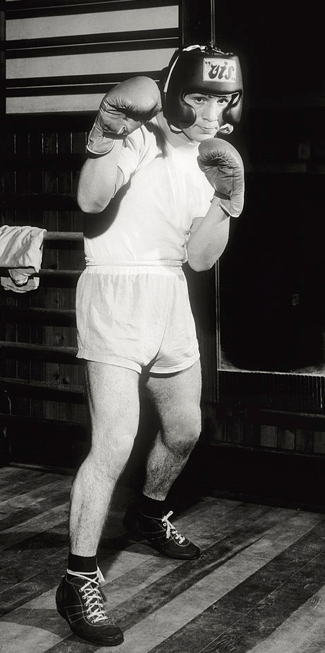 The Italian boxer Bruno Arcari, twice light welterweight Italy champion and World champion in 1970, during a training session in a gym. Genoa, May 1964.